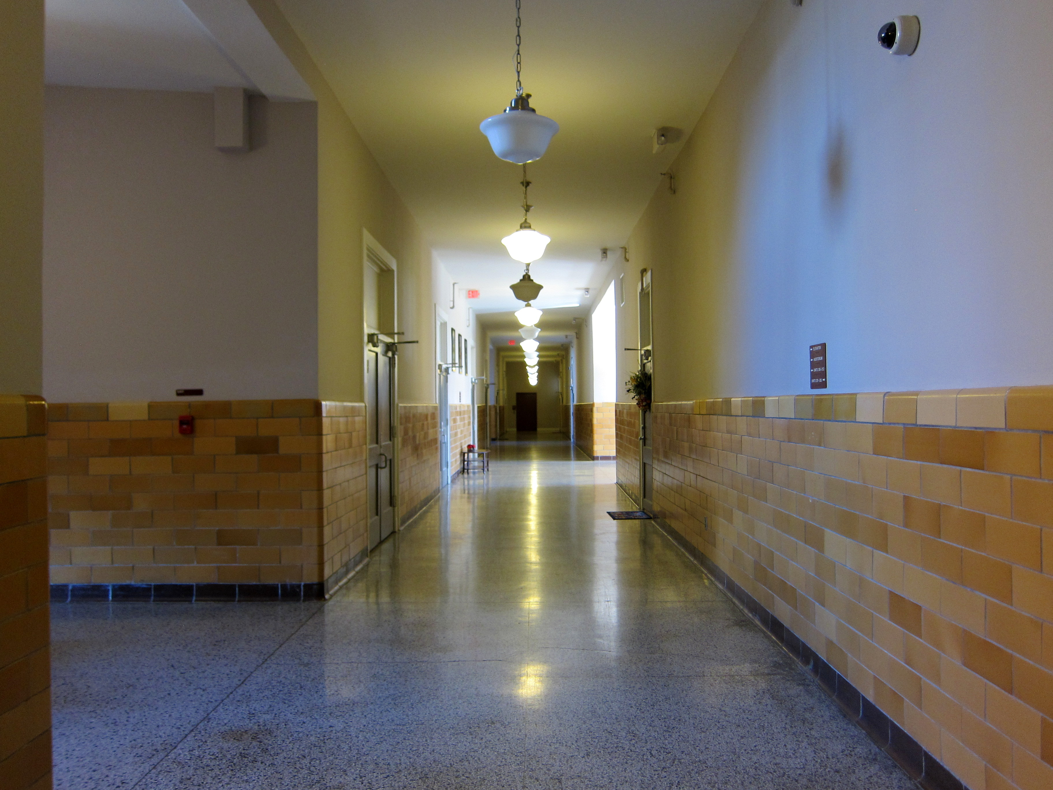 A hallway in the Hopewell Lofts, part of the historic Hopewell High School Complex, in Hopewell, Virginia.